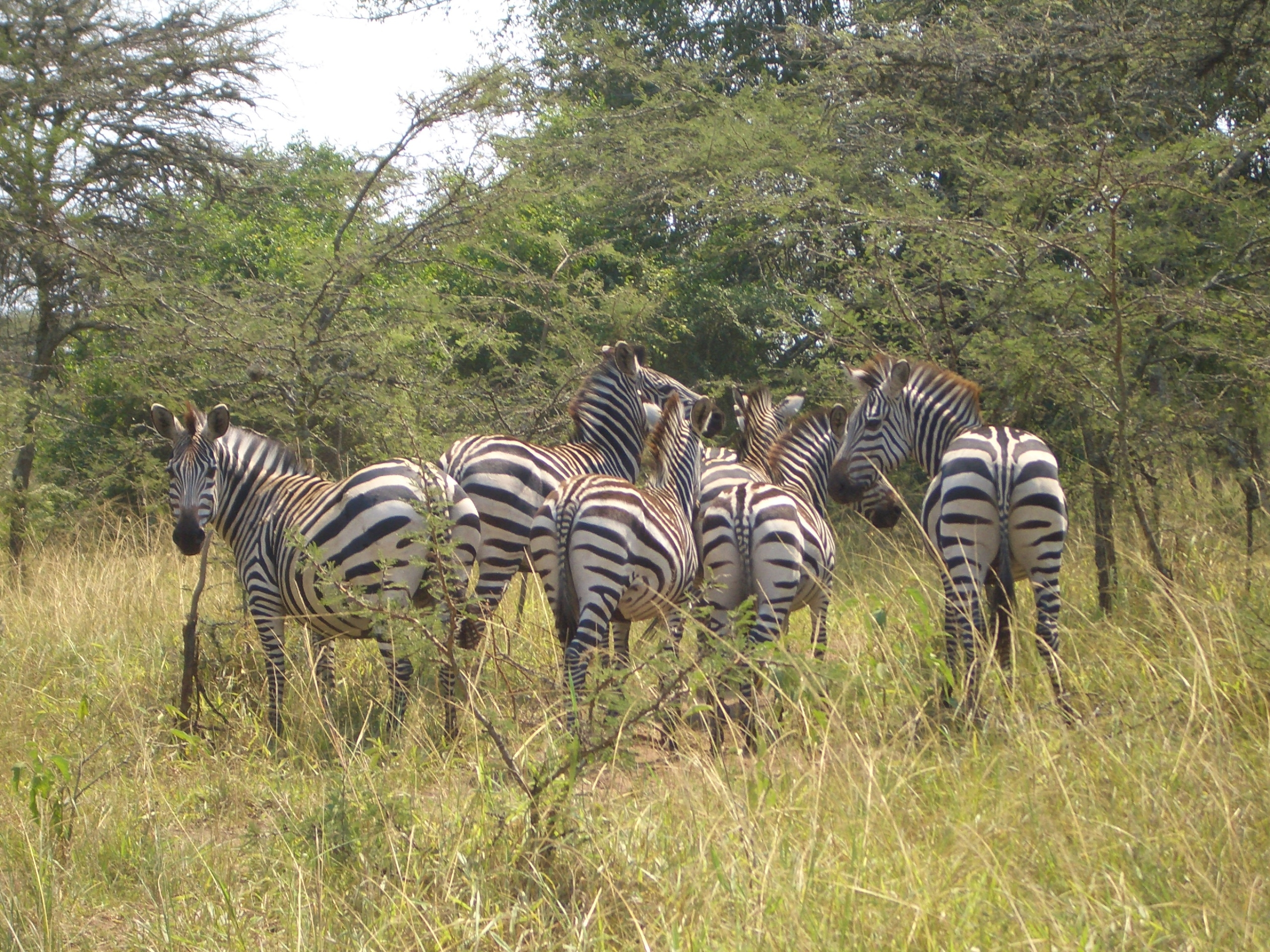 Bwindi Impenetrable National Park (Uganda)